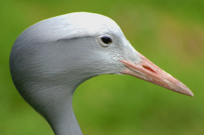 Blue Crane at a Zoo